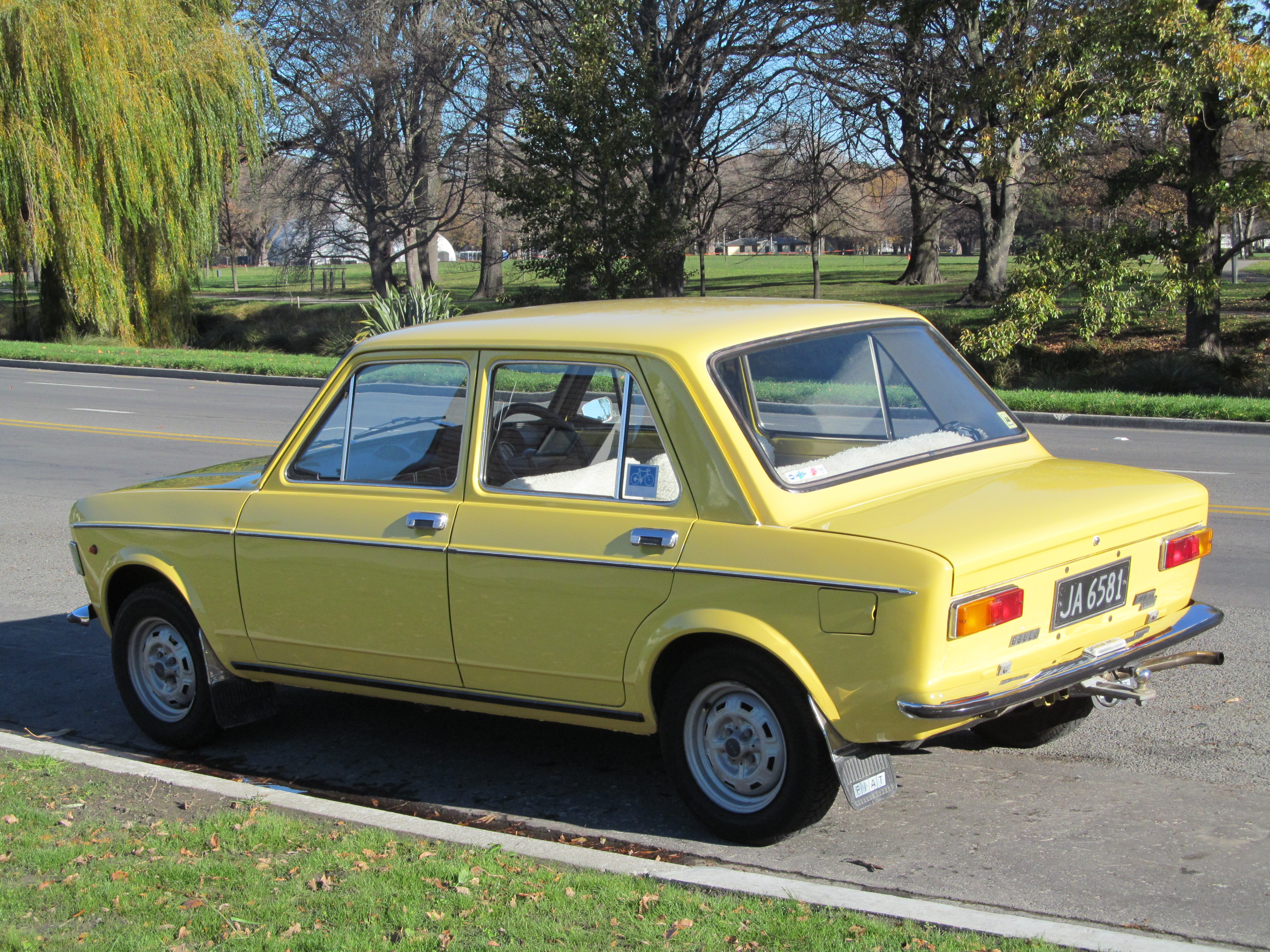 JA6581 I saw the owners, who were an older couple, and the man even fitted a steering lock before leaving it! It's great to see such a rare car being looked after so well, so full credit to the owners.